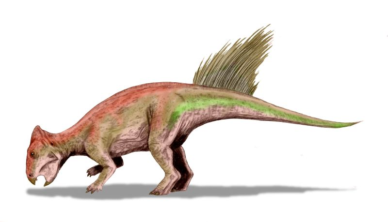 Liaoceratops yanzigouensis, a ceratopsian from the Early Cretaceous of China, pencil drawing, digital coloring